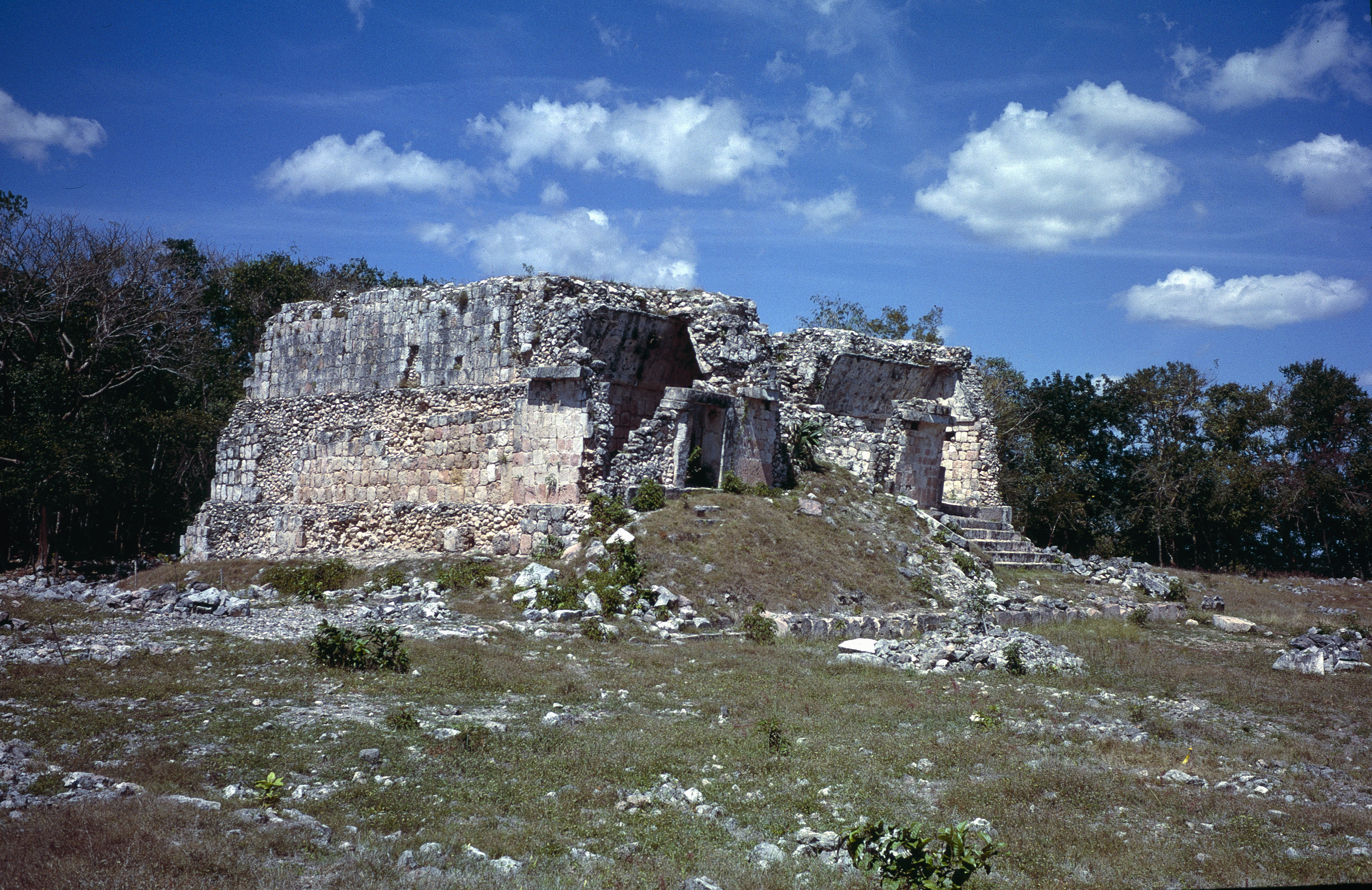 Chacmultun, Yucatan, Mexico: Main Group, building 2